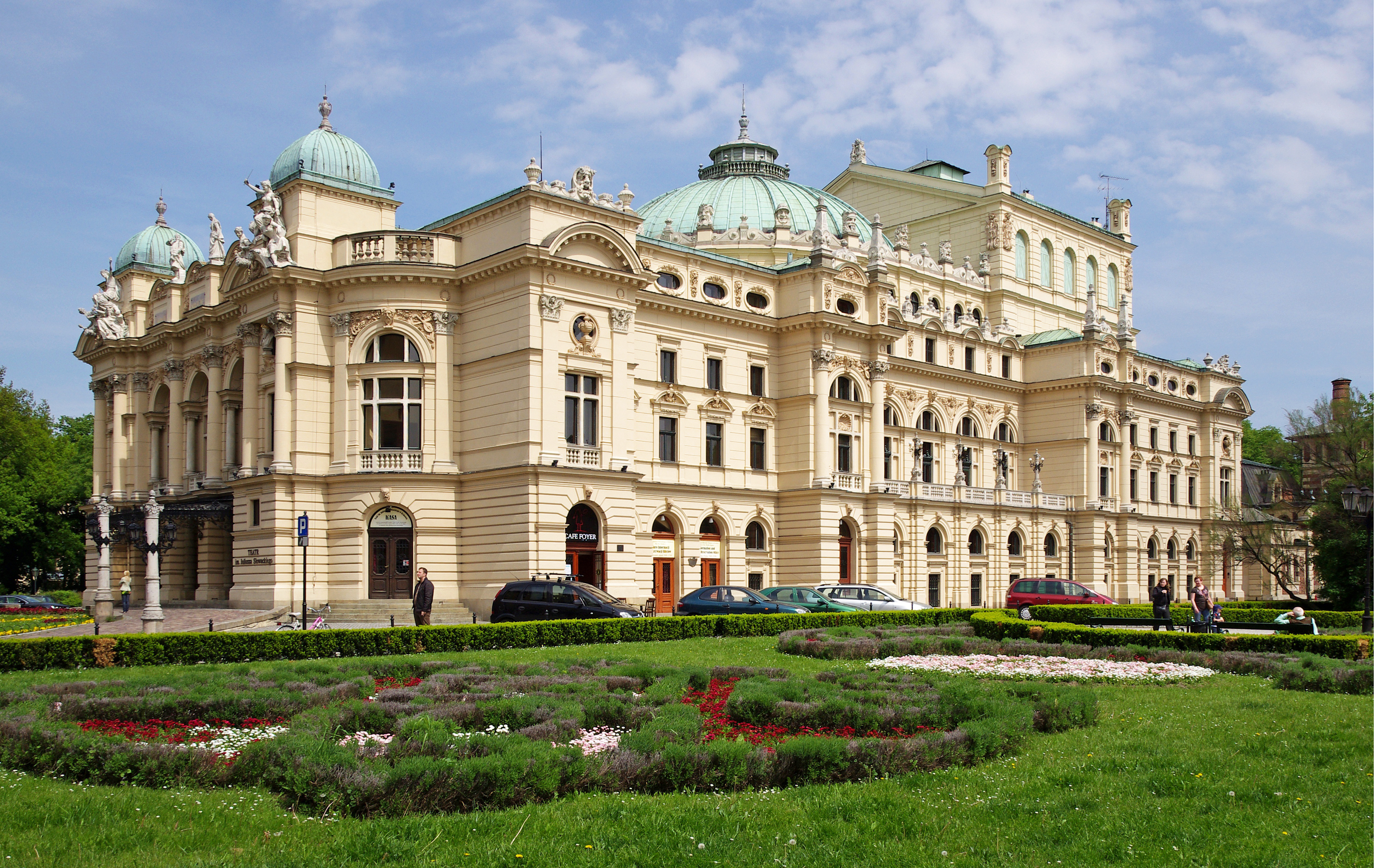 Juliusz Słowacki Theatre in Kraków